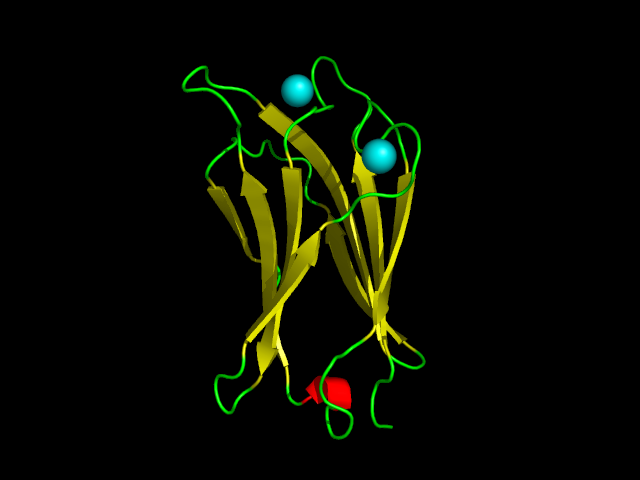 'Cartoon' depiction of C2 domain from 'C.absonum' alpha-toxin. Created by me using PDB 1OLP and PyMol. Calcium ions are shown in cyan.